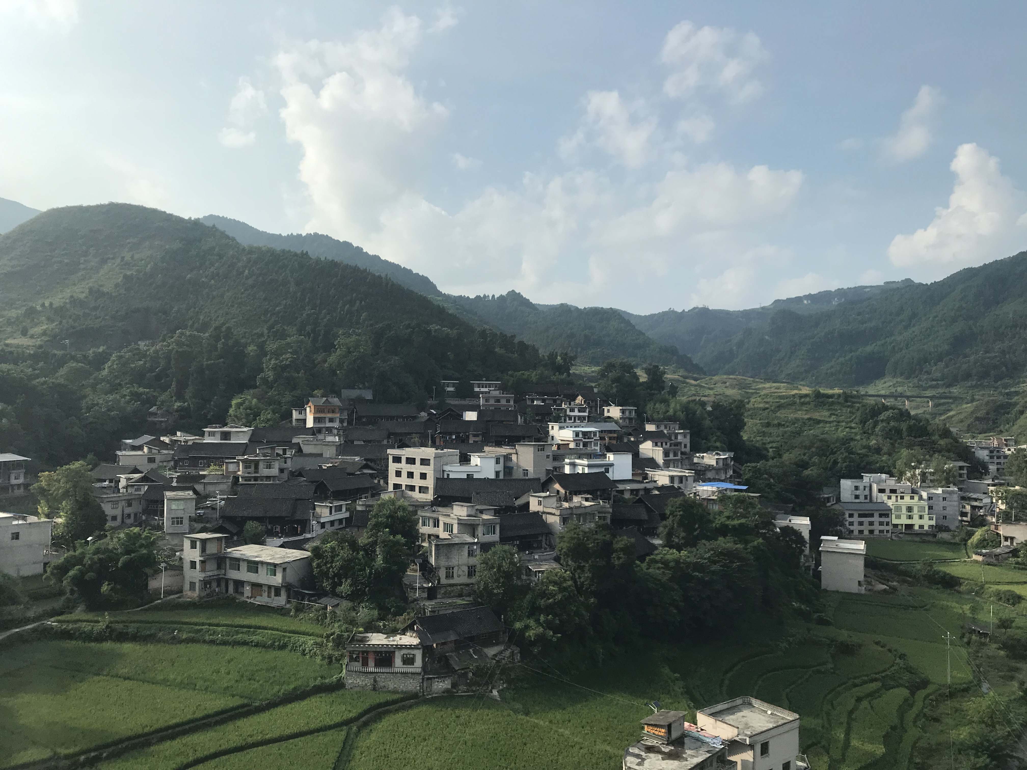 201908 Matian Village, Wanchao Town